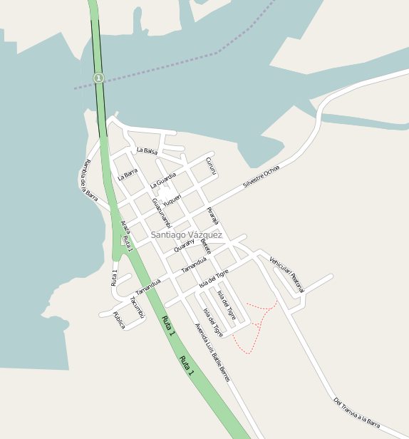 Street map of Santiago Vasquez, Montevideo, exported from OpenStreetMap. I added shading to delimit the barrio. This map may be incomplete, and may contain errors. Don't rely solely on it for navigation.